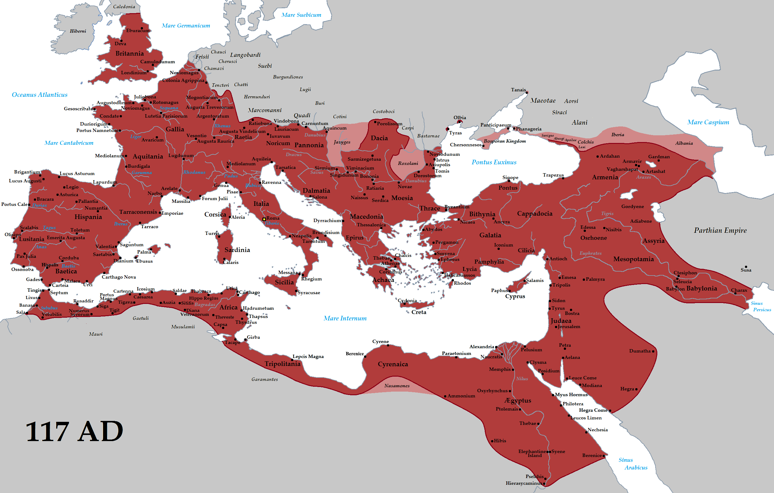 The Roman Empire (red) and its clients (pink) in 117 AD during the reign of emperor Trajan.